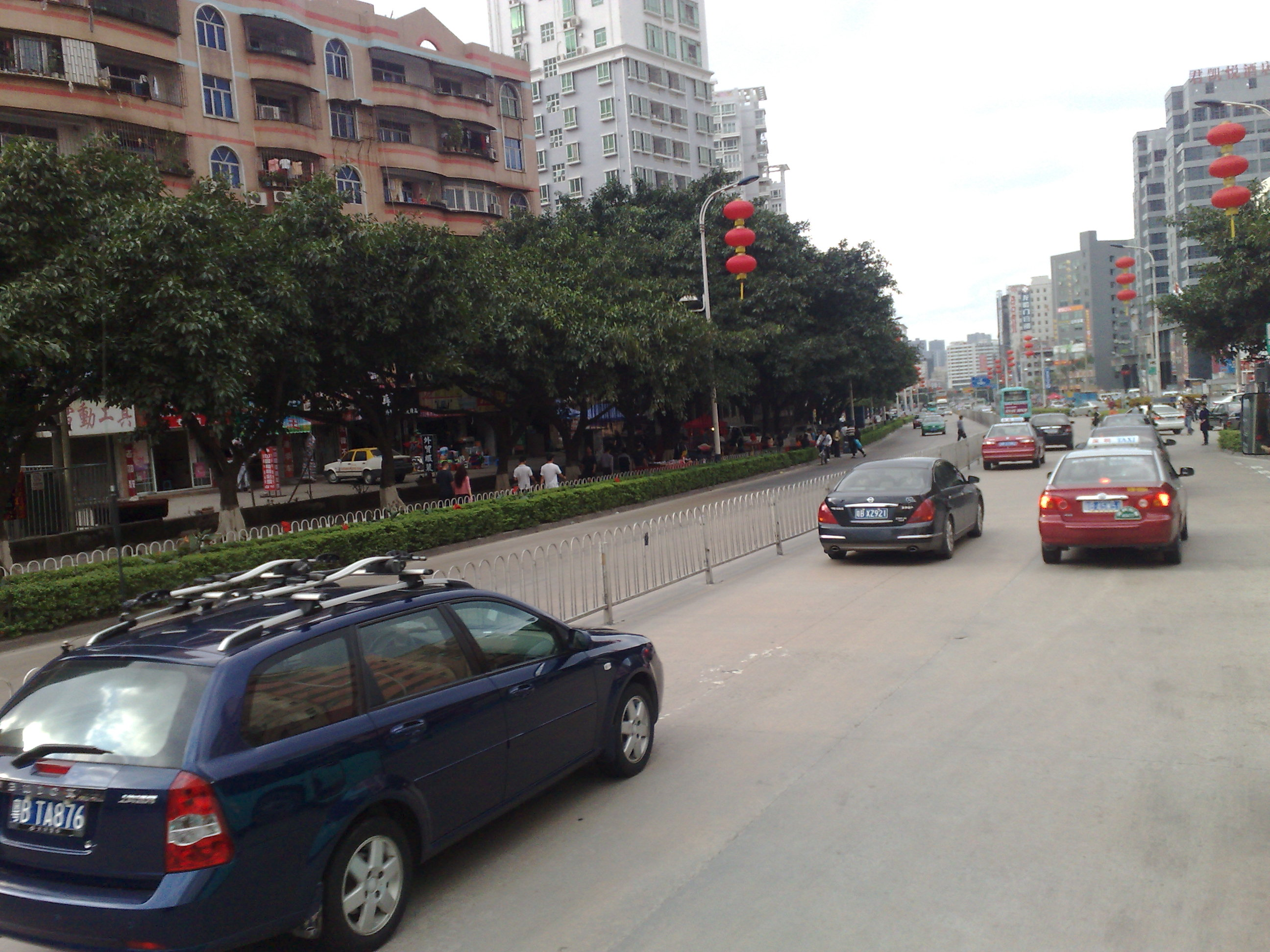 Minzhi Main Road of Shenzhen